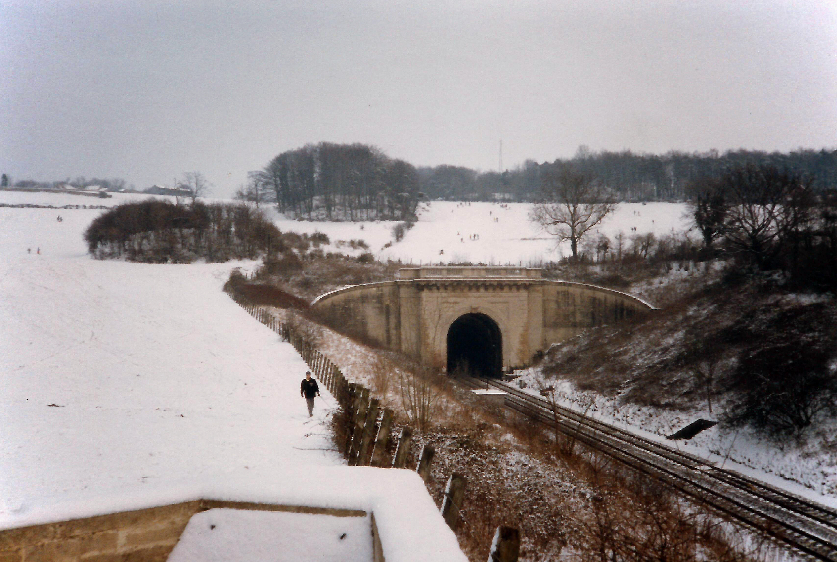 Perspective view of the Box Tunnel entrance in winter